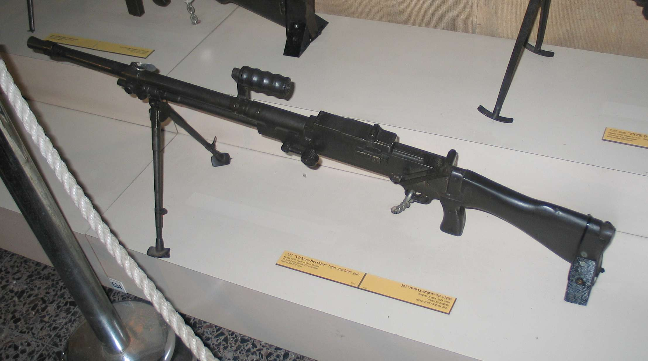 Batey ha-Osef museum, Tel Aviv, Israel. Vickers-Berthier machine gun.